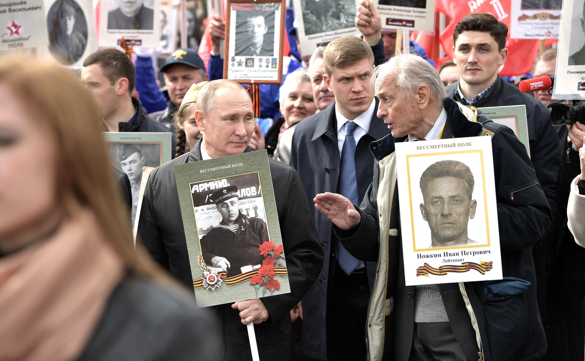 Immortal Regiment in Moscow (2017-05-09)